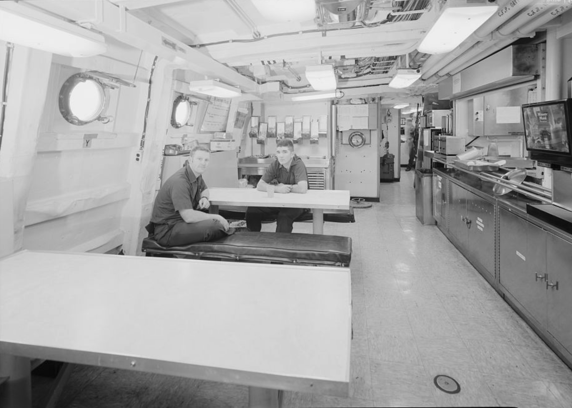 USCGC Buttonwood crew mess. Photographed at Yerba Buena Island in San Francisco Bay.